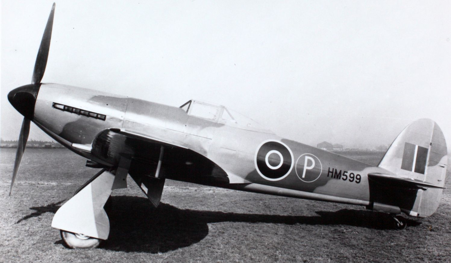 Image from the Charles Daniels Photo Collection album "British Aircraft." SOURCE INSTITUTION: San Diego Air and Space Museum Archive